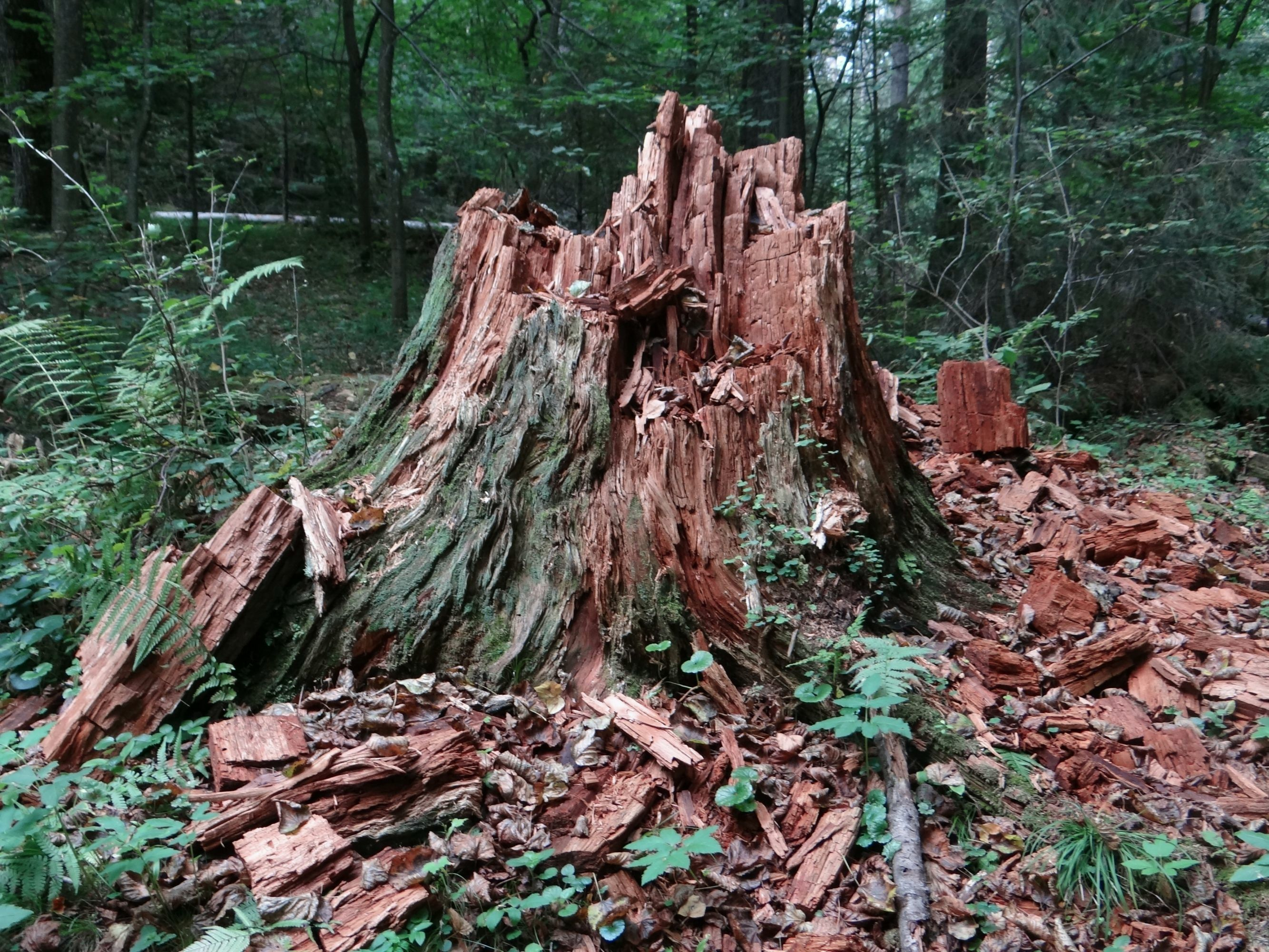 Brown rot